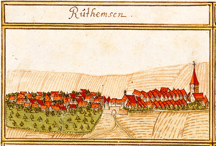 View of Rutesheim from the forest register books created by Andreas Kieser